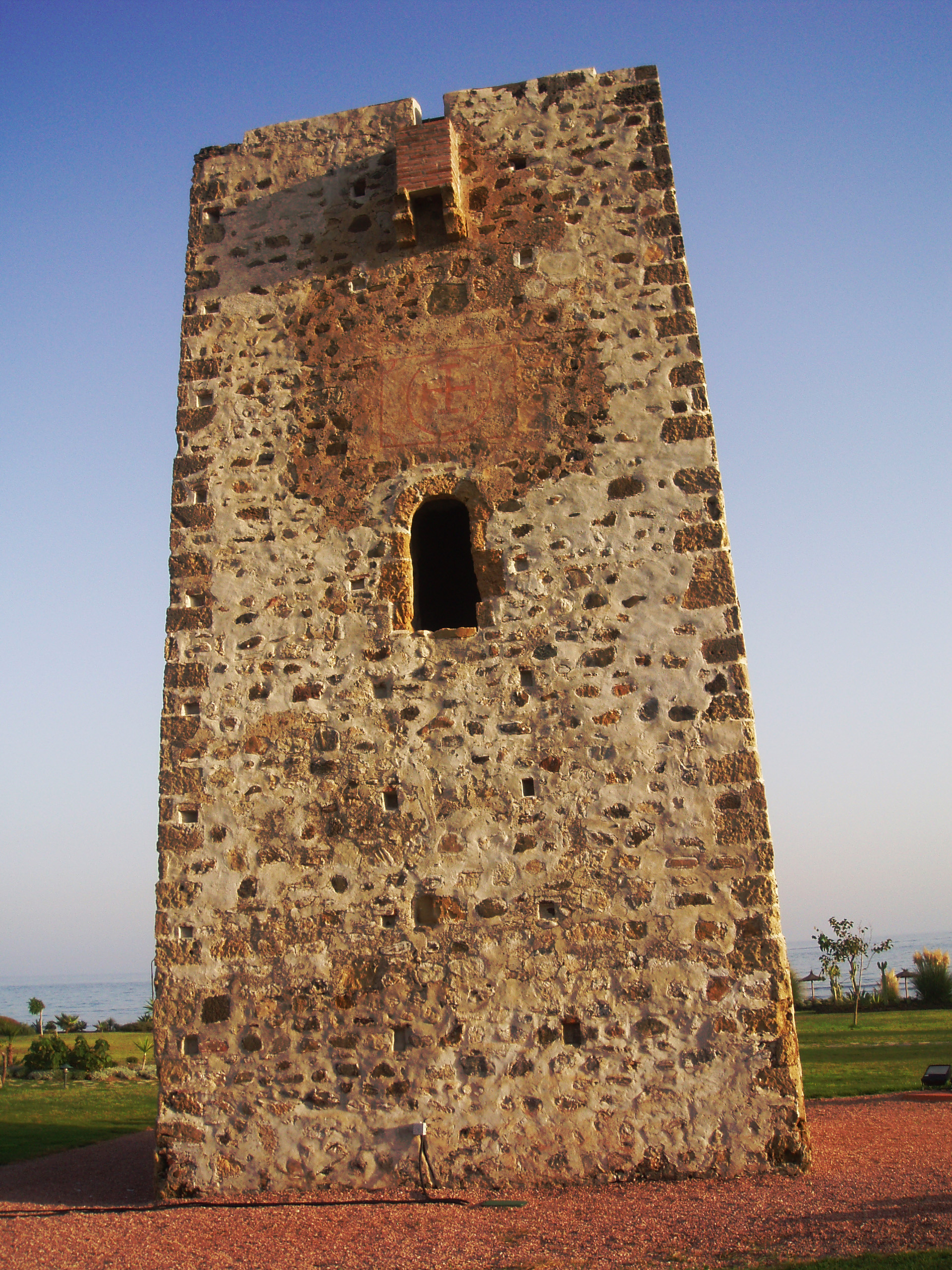 almenara tower Guadalmansa. Estepona, Málaga (Spain). 10th century A.C.; modified 16th century A.C.; restored 2005. Islamic architecture, fortification tower, defense tower